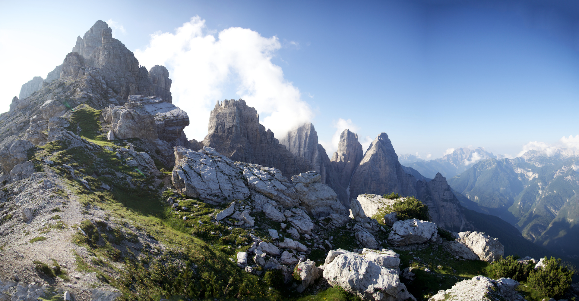 The peaks of the Bosconero group in the Dolomites